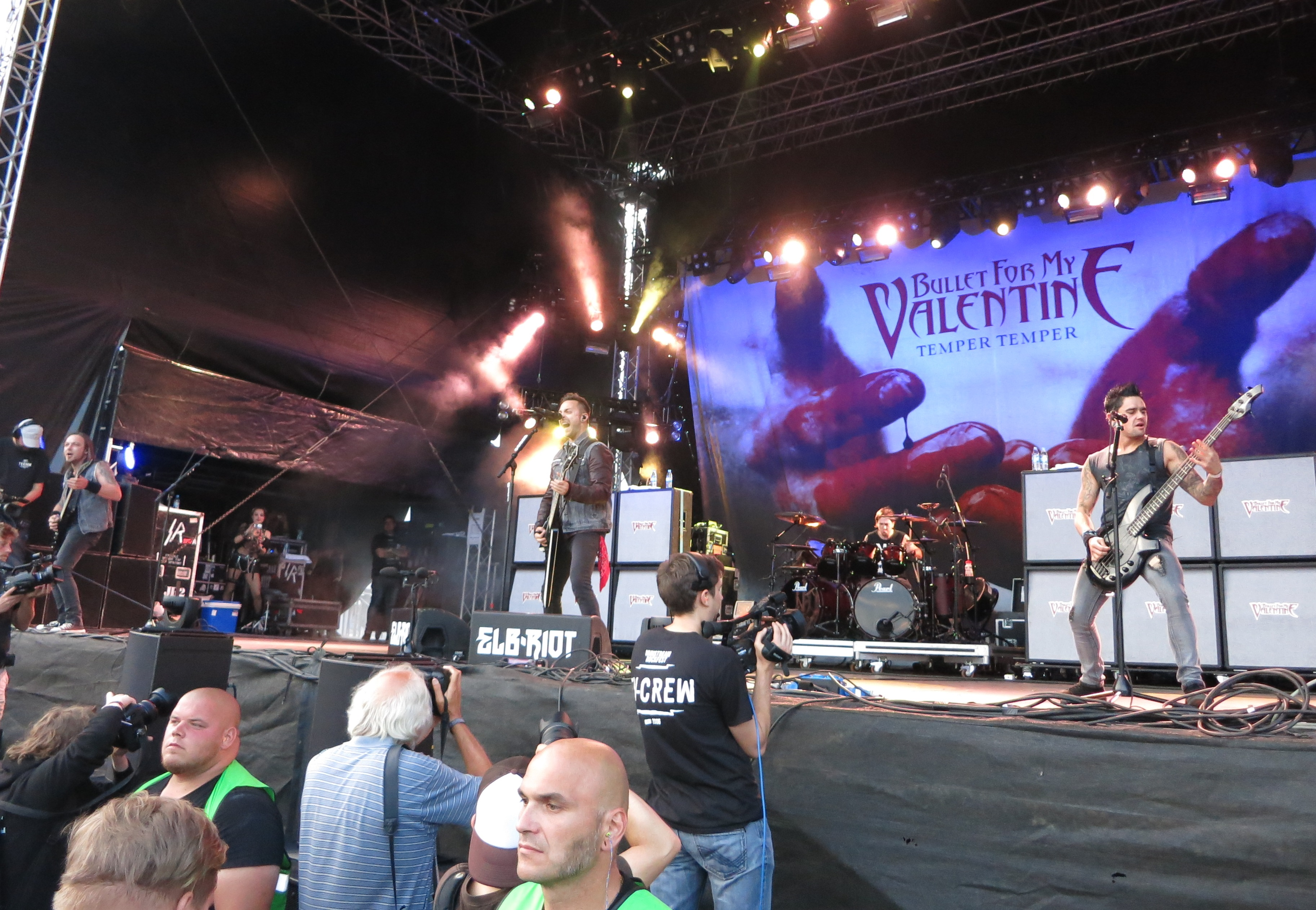 Bullet for My Valentine at Elbriot 2013